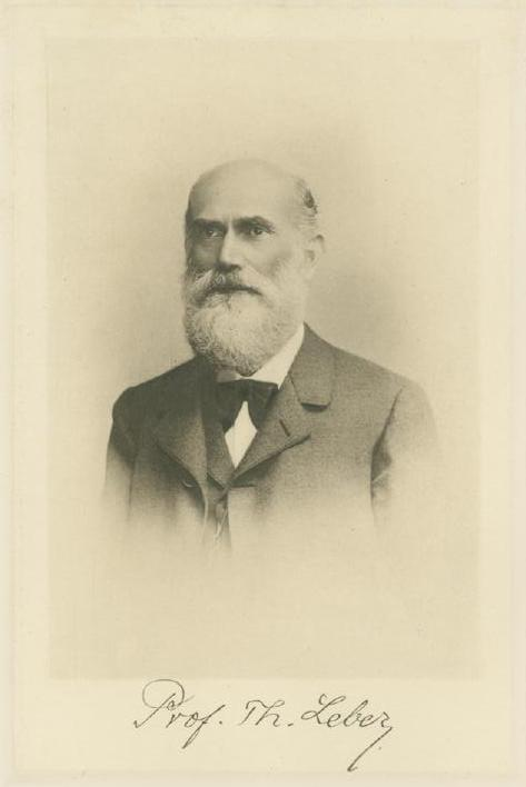 Depicted person: Theodor Leber – German ophtthalmologist